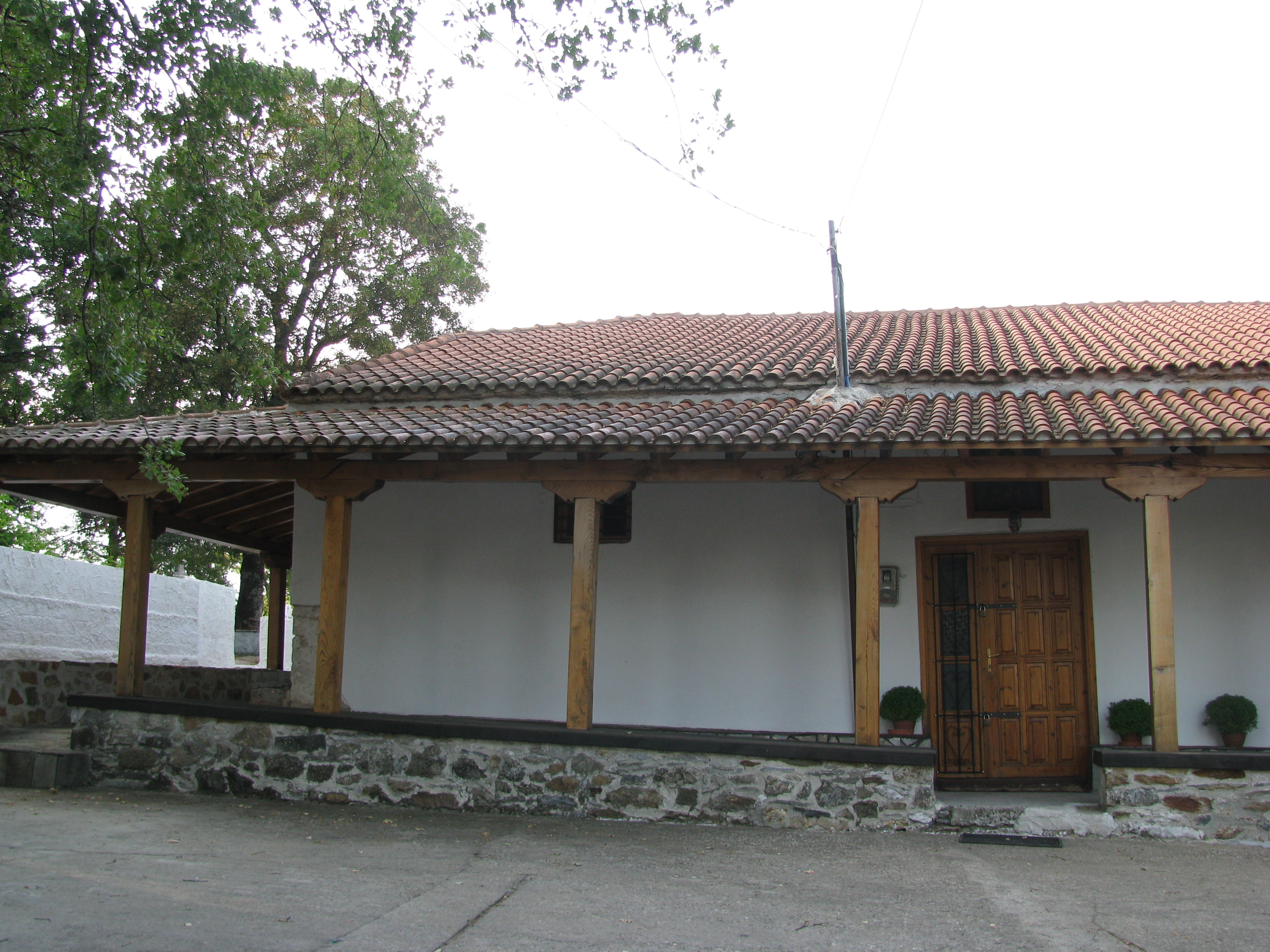 St. Petka in Barovitsa/Kostenari, Greece